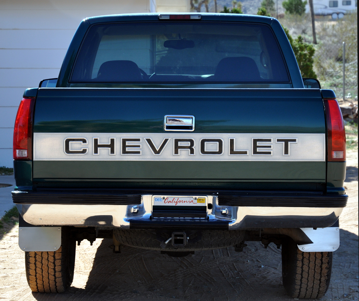 Back of 1997 Chevy C/K Pick-Up with Silverado package